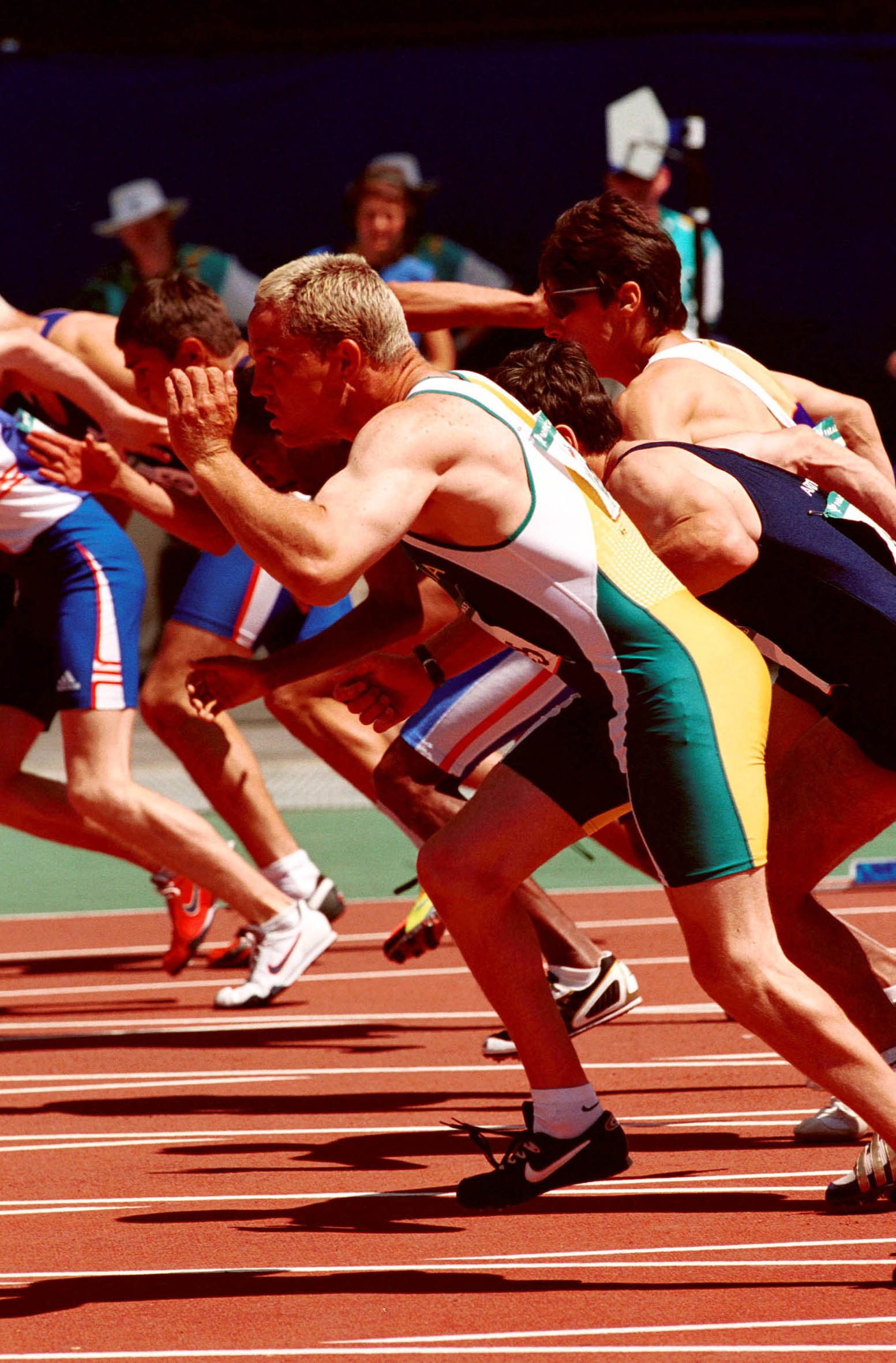 Action shot of Australian track athlete Hamish MacDonald during race competition at the 2000 Sydney Paralympic Games, Day 07